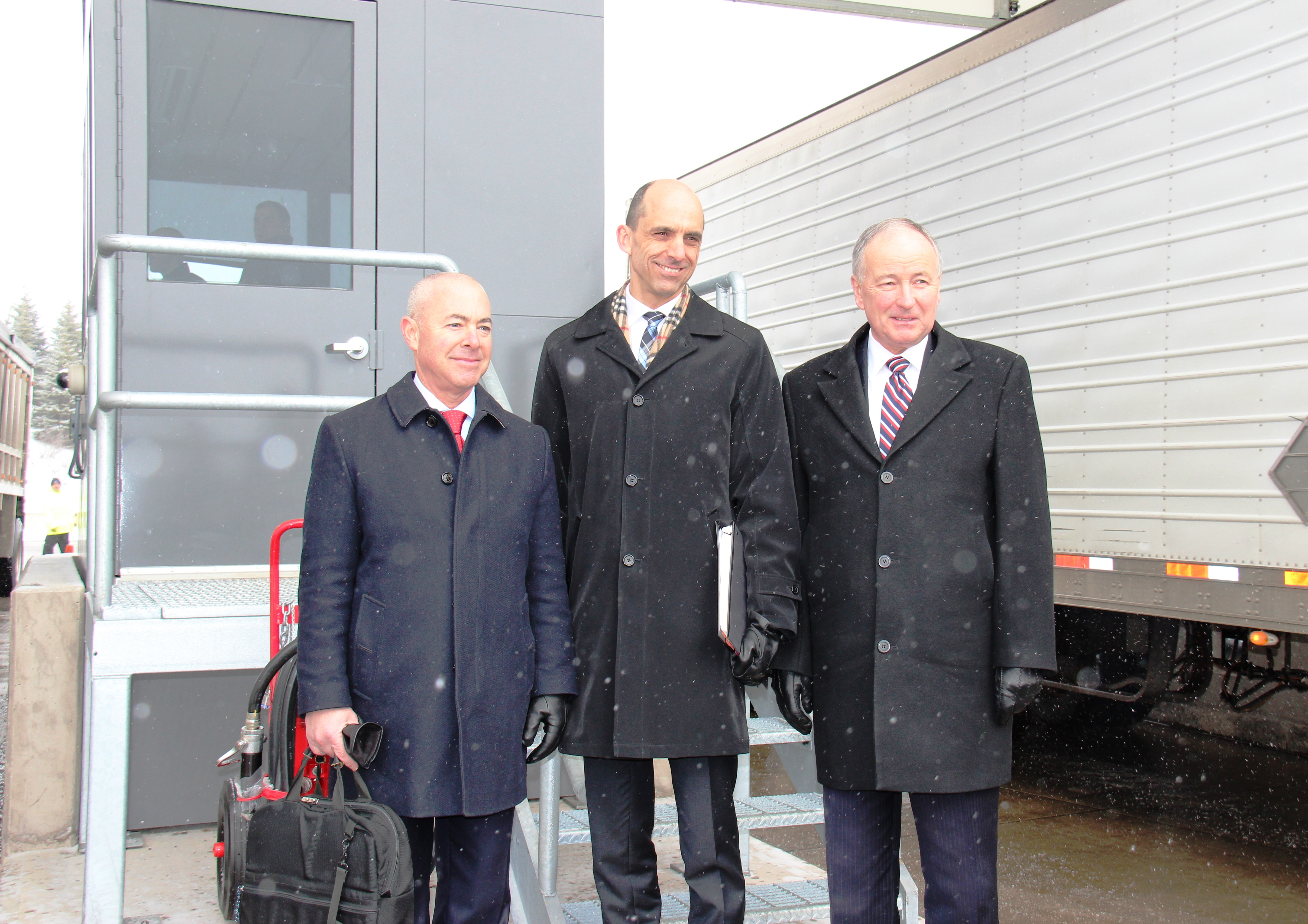 Peace Bridge Pilot Project DHS Deputy Secretary Alejandro Mayorkas (L), Public Safety Canada Minister Steven Blaney and Rob Nicholson - MP for Niagara Falls and Minister of National Defence Canada, on the Ontario side of the Peace Bridge.